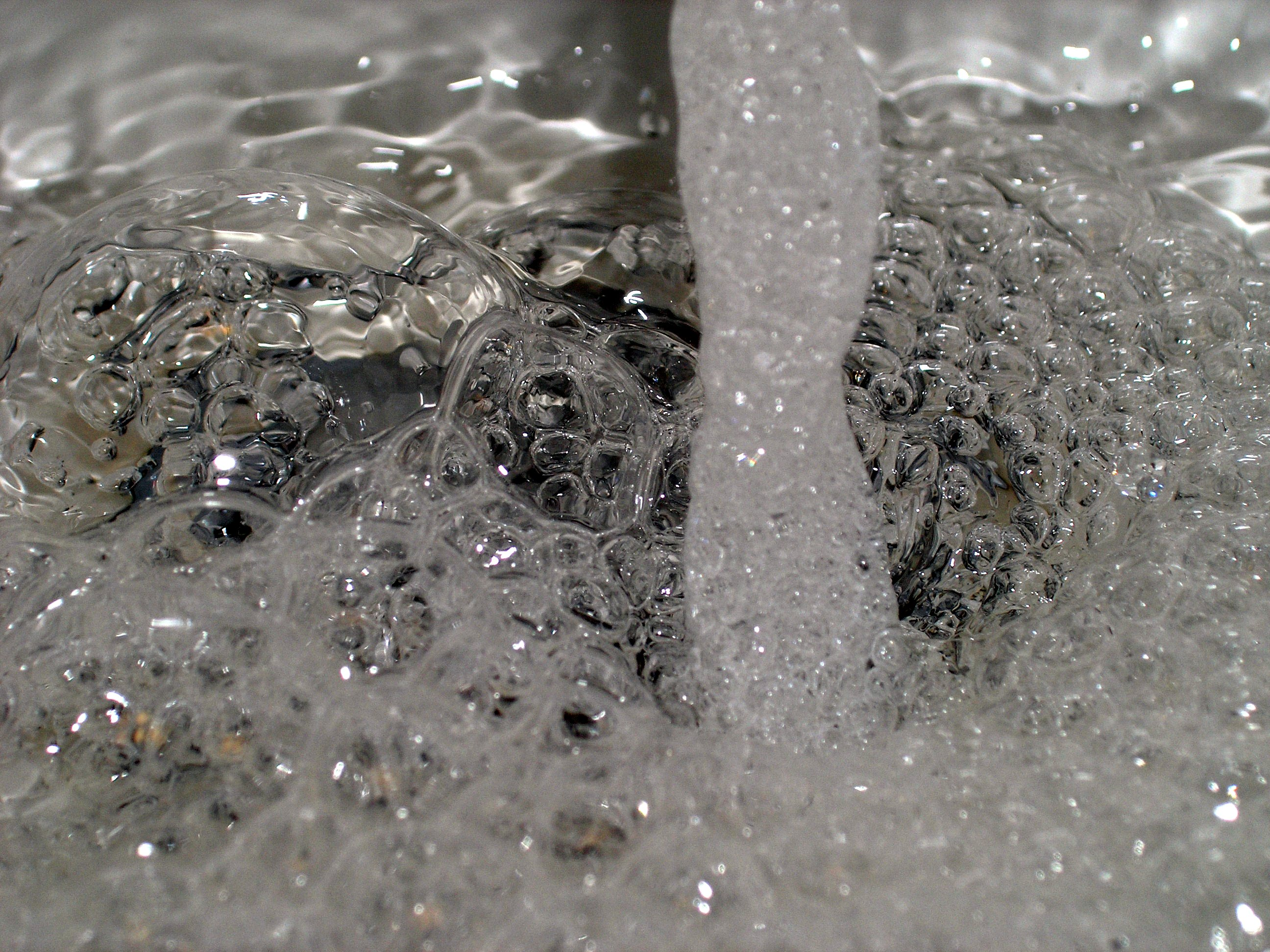 Aerated water coming from a faucet.